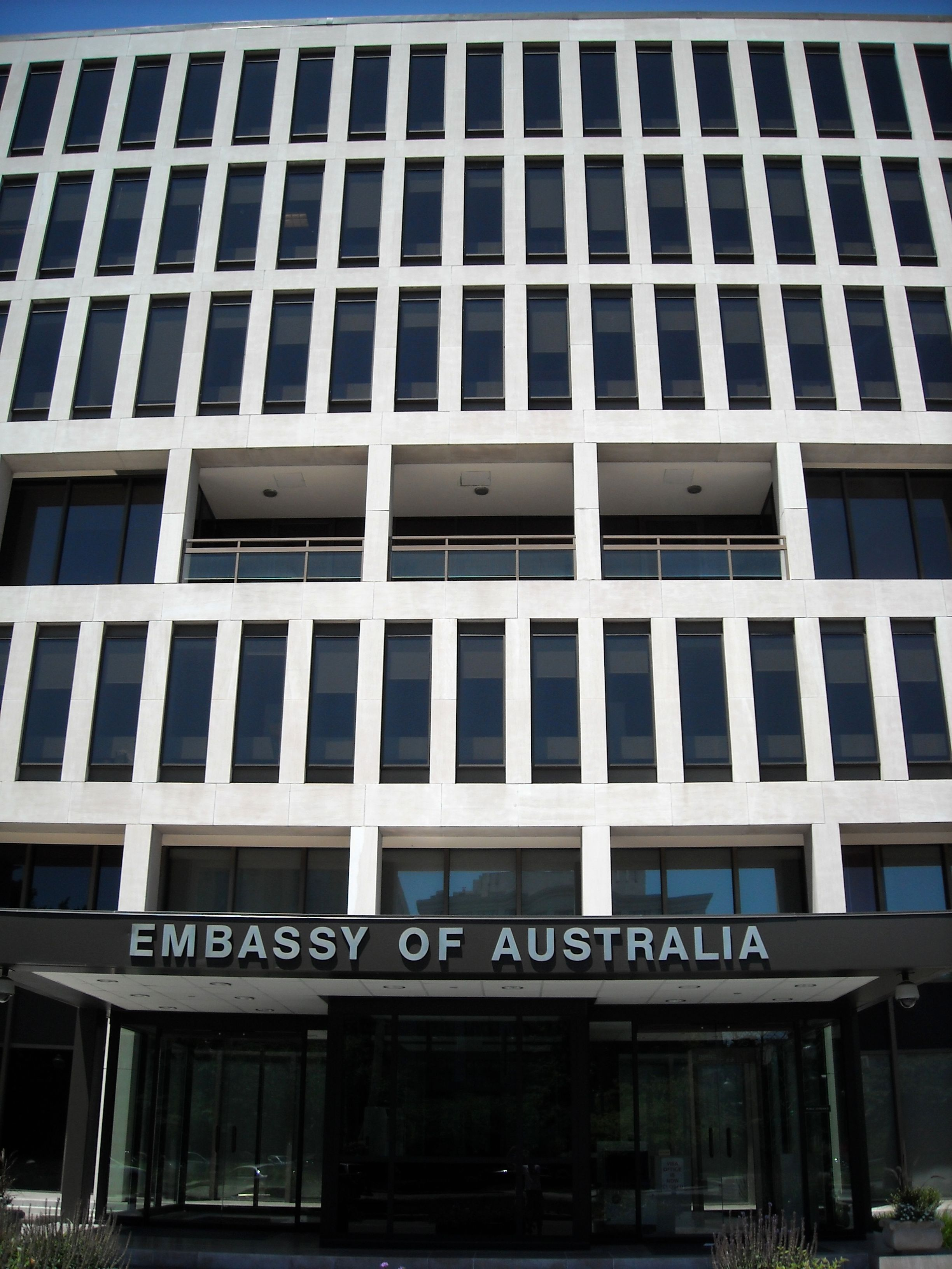 Embassy of Australia for the United States, located in Washington, D.C. at Scott Circle